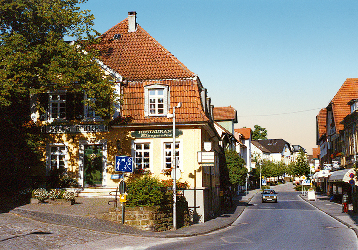 Main Street in Oerlinghausen, Germany